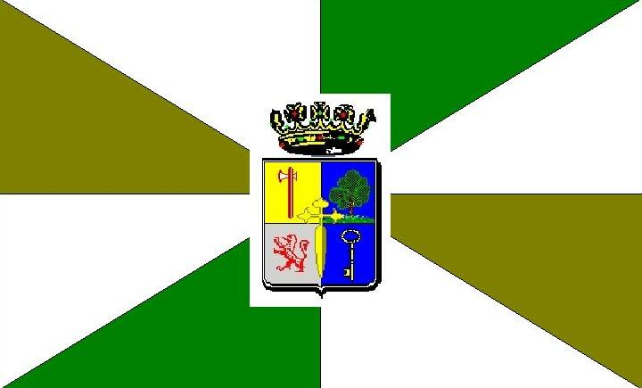 Genave's flag